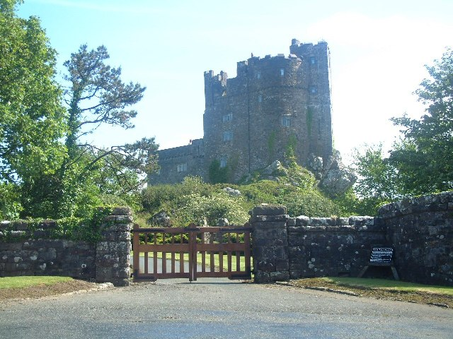 Roch Castle. Built in the 13th Century by a Norman knight, Roch Castle marks the northern limit of the Norman Conquest of West Wales. In the 1630s it was home to Lucy Walter who later became consort of Charles II and mother of the Duke of Monmouth.